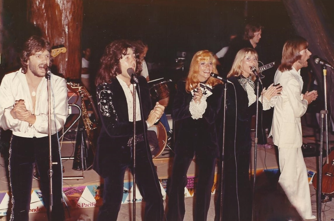 British vocal group Design performing in the Seychelles in 1973.